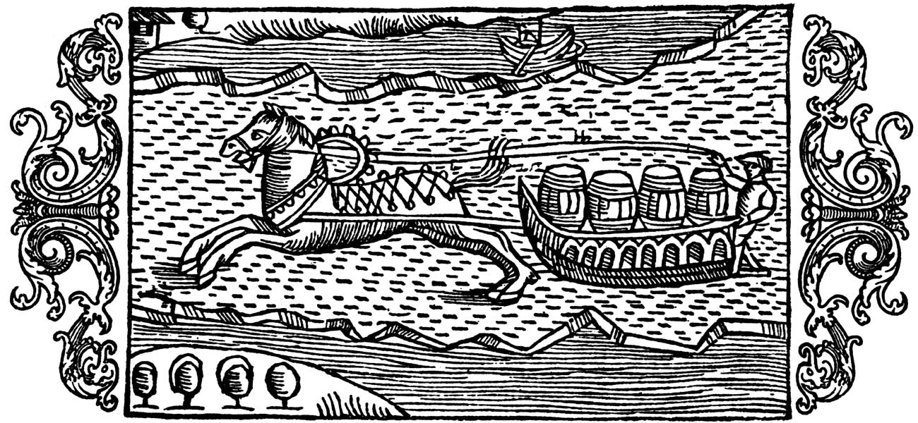 A man transports four barrels in a sledge pulled by a horse. They travel on an ice floe. There is large parts of open water on the illustration.